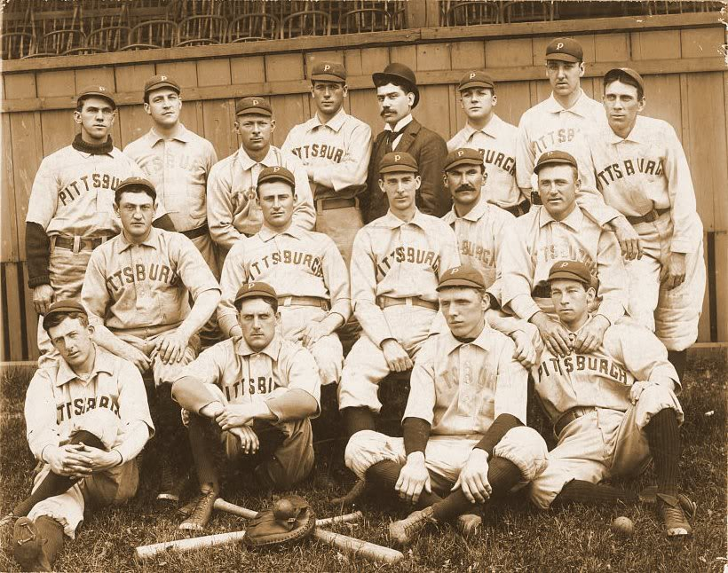 1896 Pittsburgh Pirates baseball teamTop row, L-R: Jake Stenzel (CF), Pink Hawley (P), Lou Bierbauer (2B), Patsy Donovan (RF), (George?) Balliett, Bill Merritt (C/utility), Frank Killen (P), Bones Ely (SS)Middle row, L-R: Mike Smith, Jim Hughey (P), Connie Mack (Mgr./C/1B), Jake Beckley (1B), Denny Lyons (3B)Bottom row, L-R: Charlie Hastings (P), Jot Goar (P), Joe Sugden (C), Brownie Foreman (P)